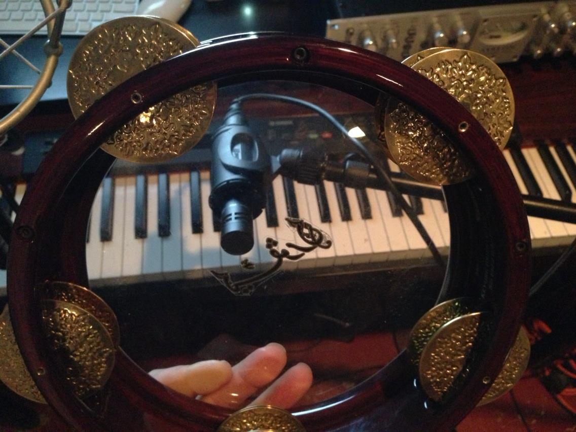 Arabic Professional Tambourine